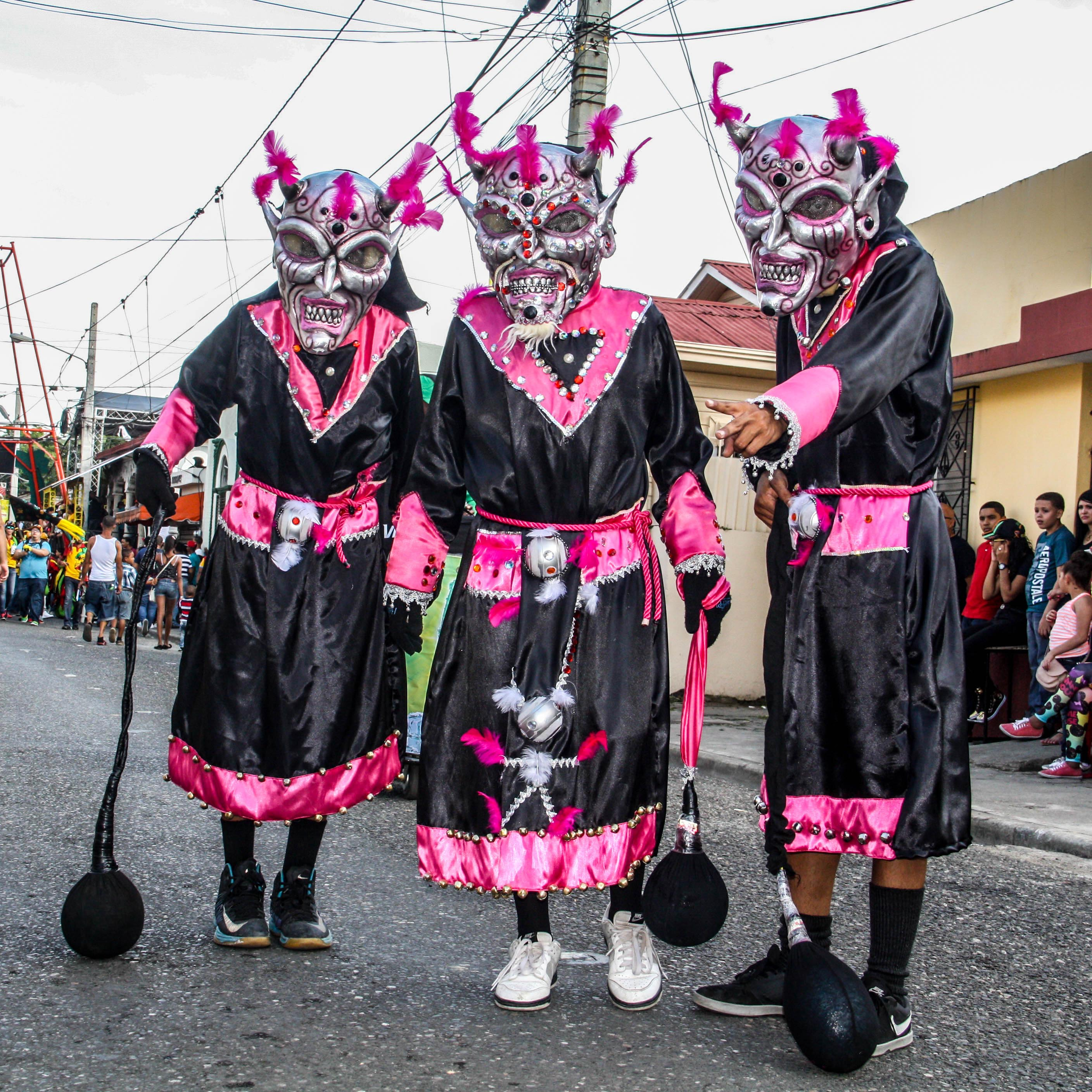 Carnival in Concepción de La Vega, Dominican Republic